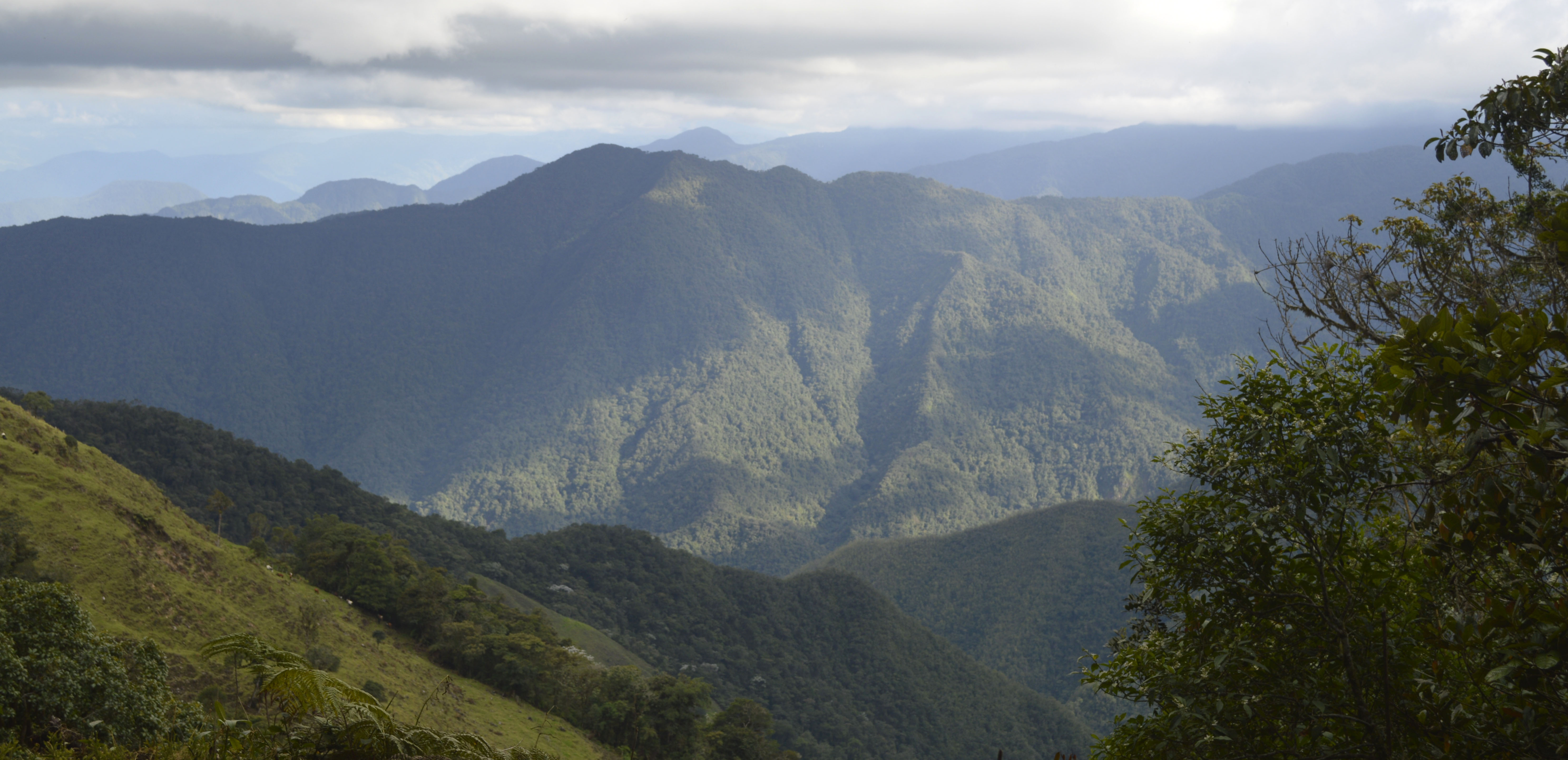 Andean Forests, Vereda Pomarrosos, Santurban-Salazar Nature Park, municipality of Salazar de las Palmas